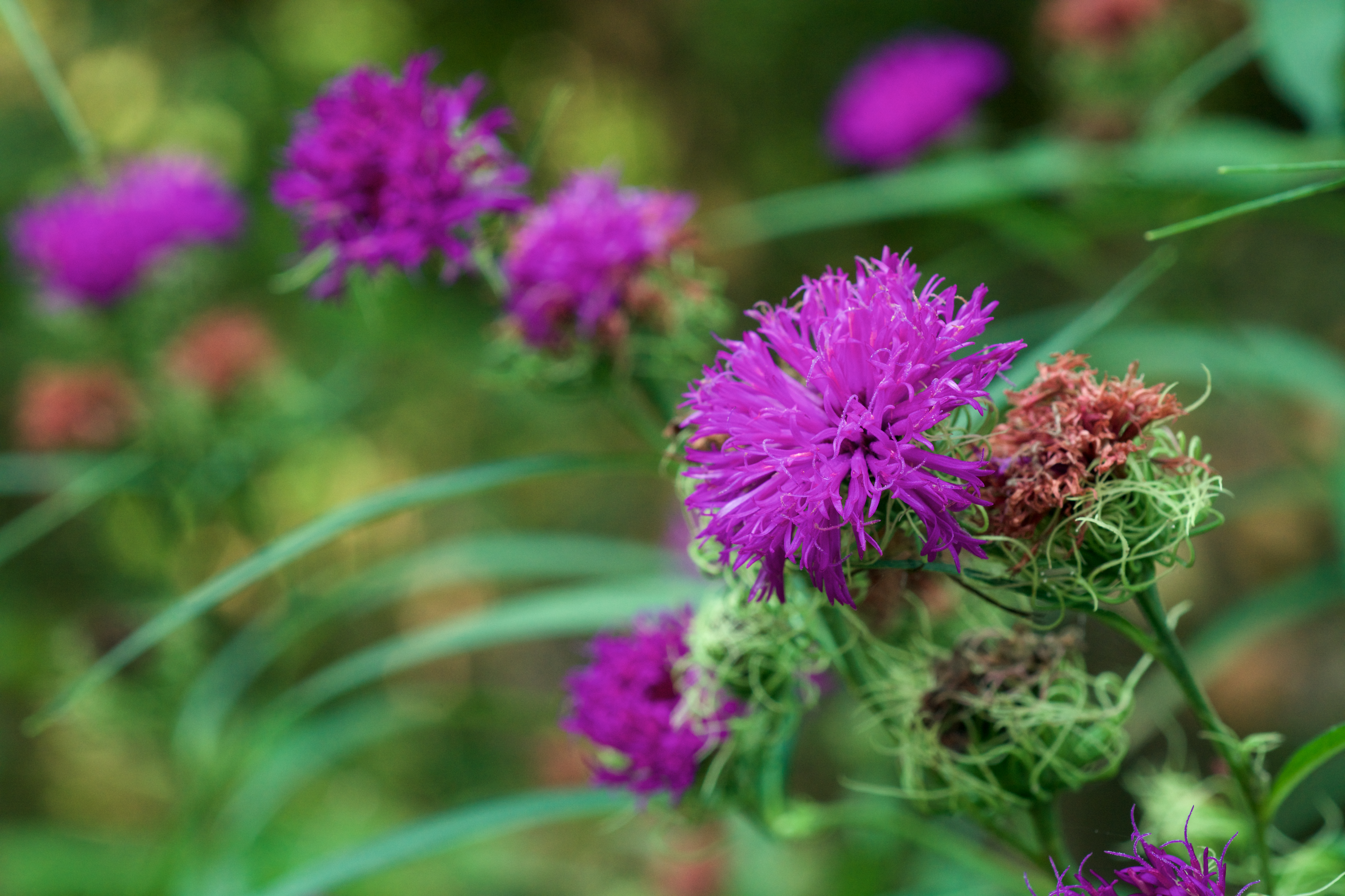 Species from Arkansas, Missouri, Oklahoma, Nebraska Common name: Arkansas ironweed, great ironweed Photographed on the North Sylamore Creek Trail, Ozark National Forest, Stone County, Arkansas